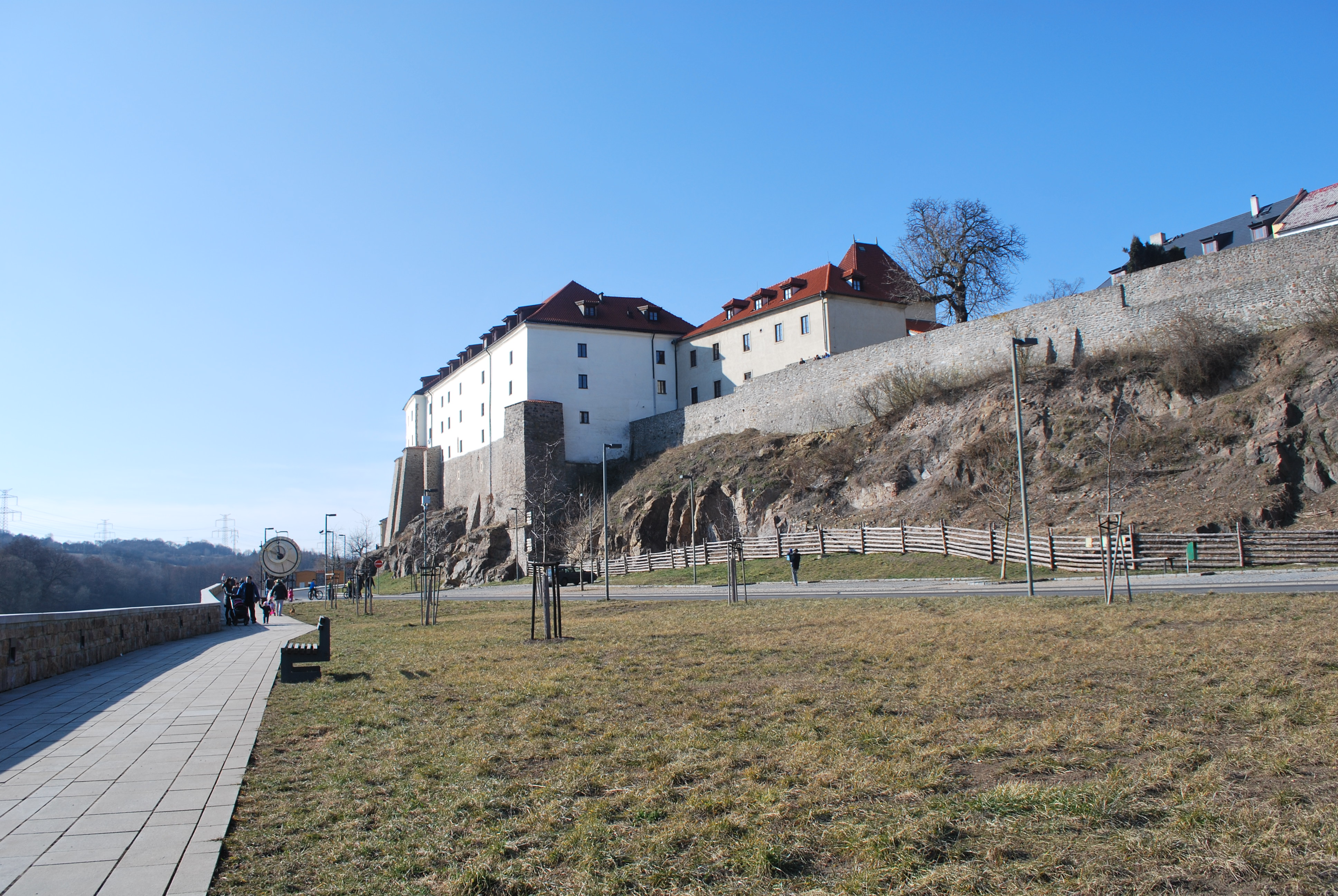 View of Kadaň Castle